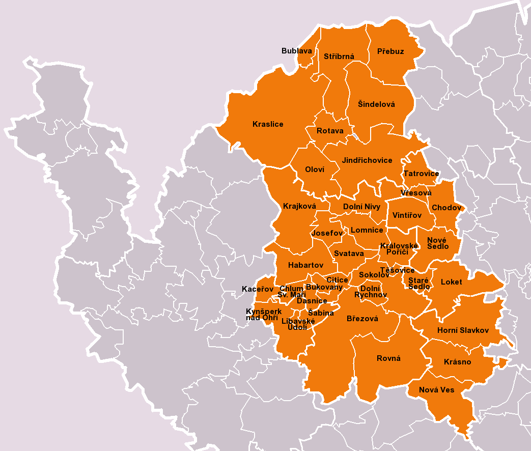 Municipalities of Sokolov District as of January 1, 2010 (38 municipalities in total). White lines of variable thickness show boundaries of municipalities, administrative areas, districts, regions and nations.